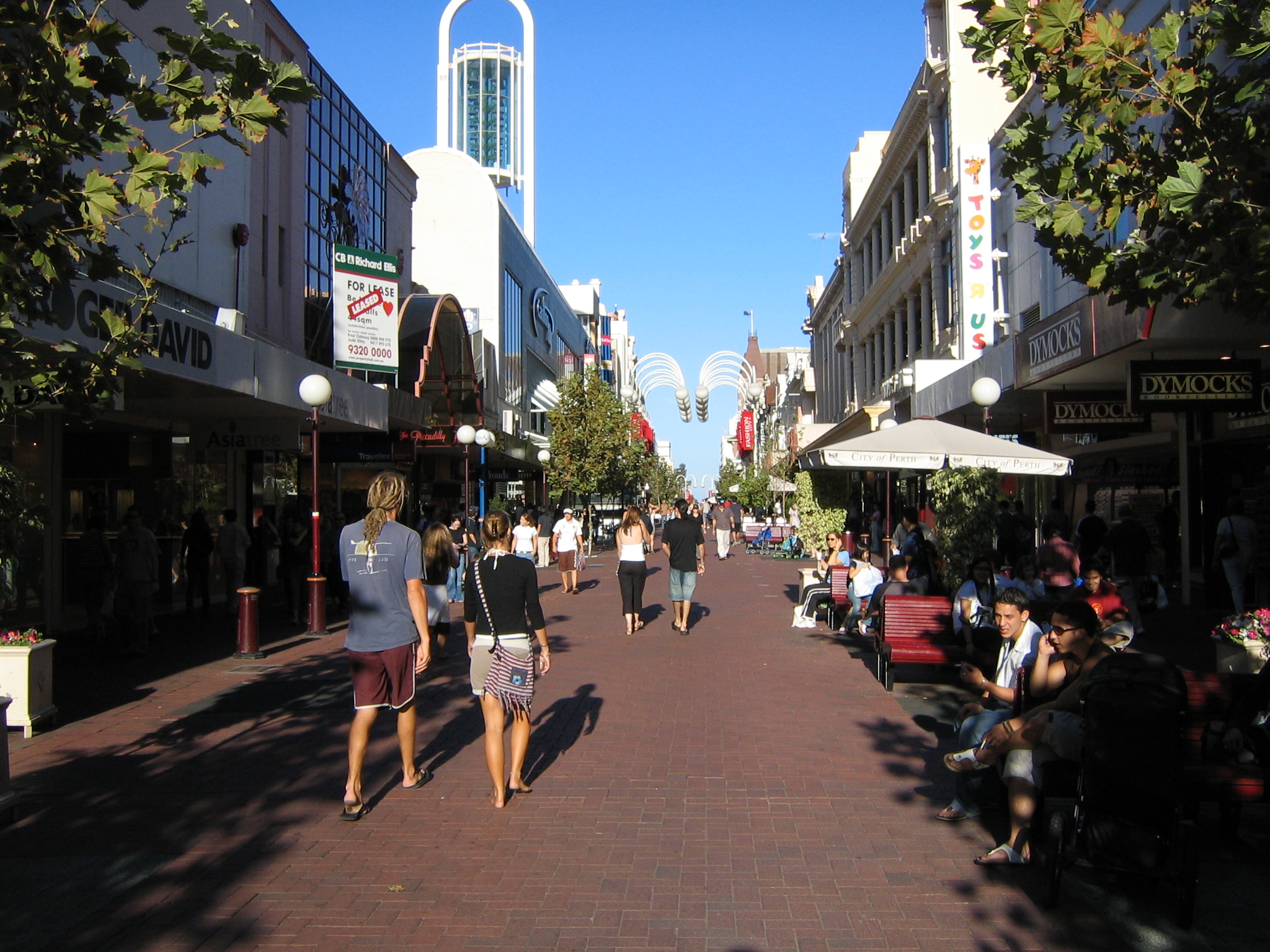 Hay Street Mall, Perth, Western Australia.